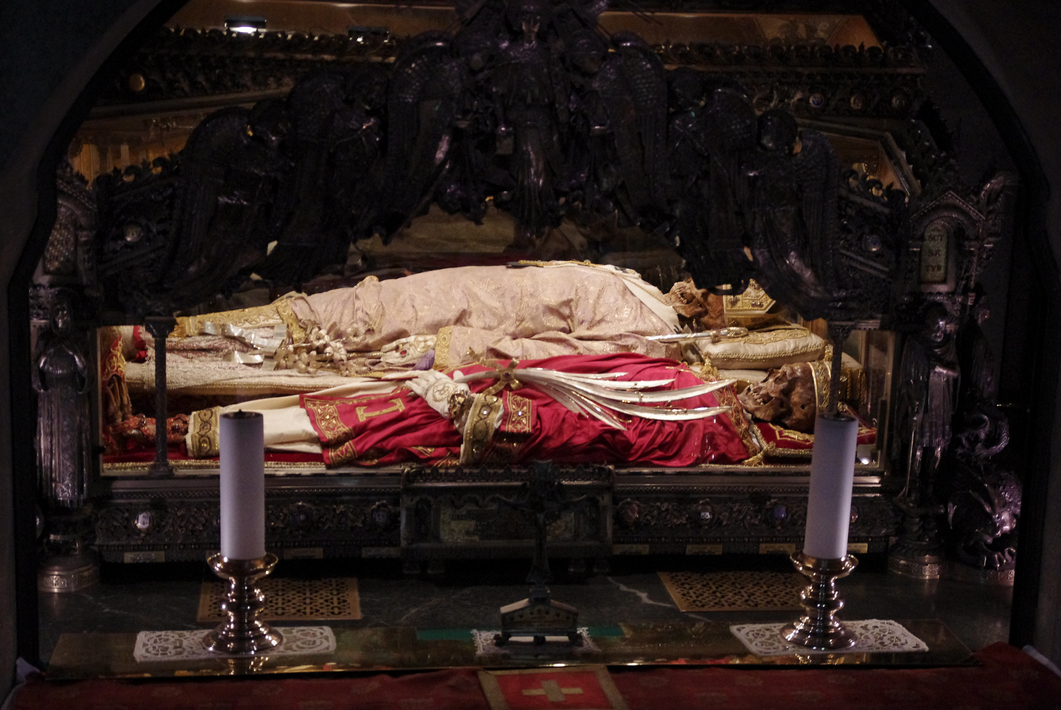 The crypt in Sant'Ambrogio basilica in Milan, with skeletons of Saint Ambrose, Saint Gervasius and Saint Protasius